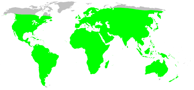 Scytodidae habitat distribution, drawn after Platnick: World Spider Catalog 7.0. This is not a precise rendering of the distribution! If you have better information, please replace this map, or send me the info, and i will redraw it.